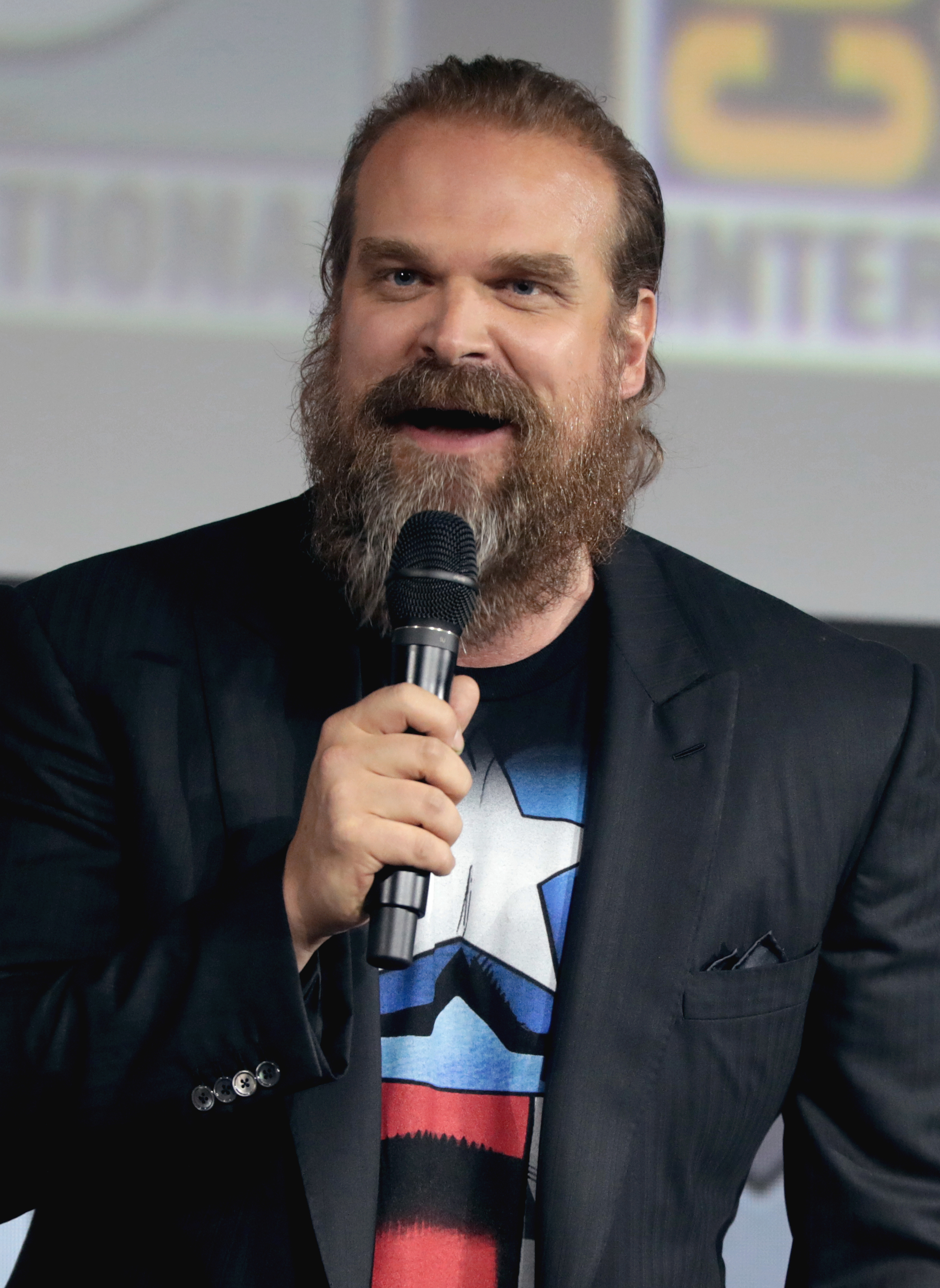 David Harbour speaking at the 2019 San Diego Comic-Con International in San Diego, California.